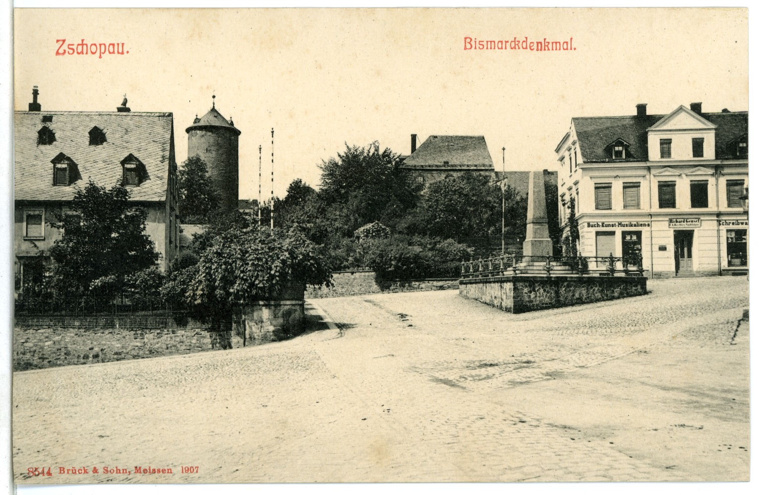 This postcard is from publisher Brück & Sohn in Meißen ( This postcard has a unique number 08544 and is available in a higher resolution at the publisher. This images was uploaded in a cooperation project between Wikipedians and the publisher.